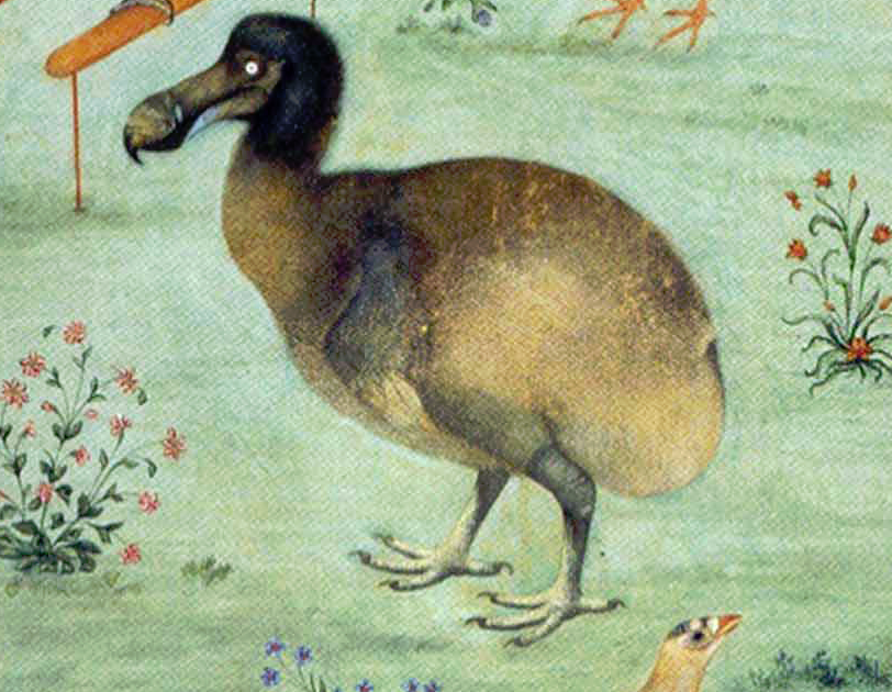 Painting by the Mughal artist Ustad Mansur from c 1625, which may be one of the most accurate depictions of a live dodo. Two live specimens were brought to India in the 1600s according to Peter Mundy, and the specimen depicted might have been one of these. Other birds depicted are Loriculus galgulus (upper left) Tragopan melanocephalus (upper right), Anser indicus (lower left) (although the pose and pattern suggests a hybrid, possibly related to the Indian runner duck - note upright posture, long neck and smaller size although this is clearly not to scale going by the lorikeet) Pterocles indicus (lower right)